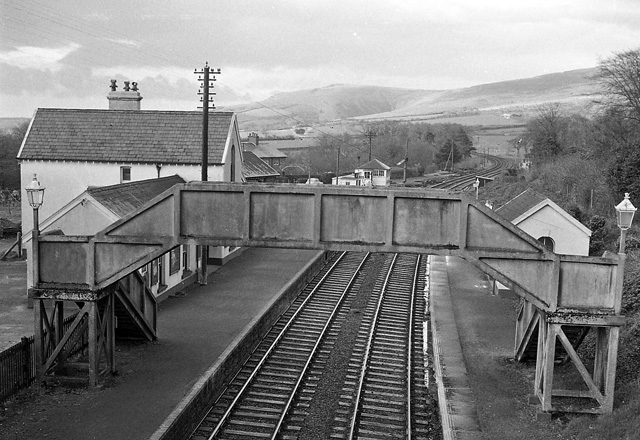 Bridestowe Station. View NE, towards Okehampton and Exeter; ex-London & South Western, Exeter - Okehampton - Plymouth main line. The station was closed completely, along with the line (Okehampton - Bere Alston) on 6/5/68.